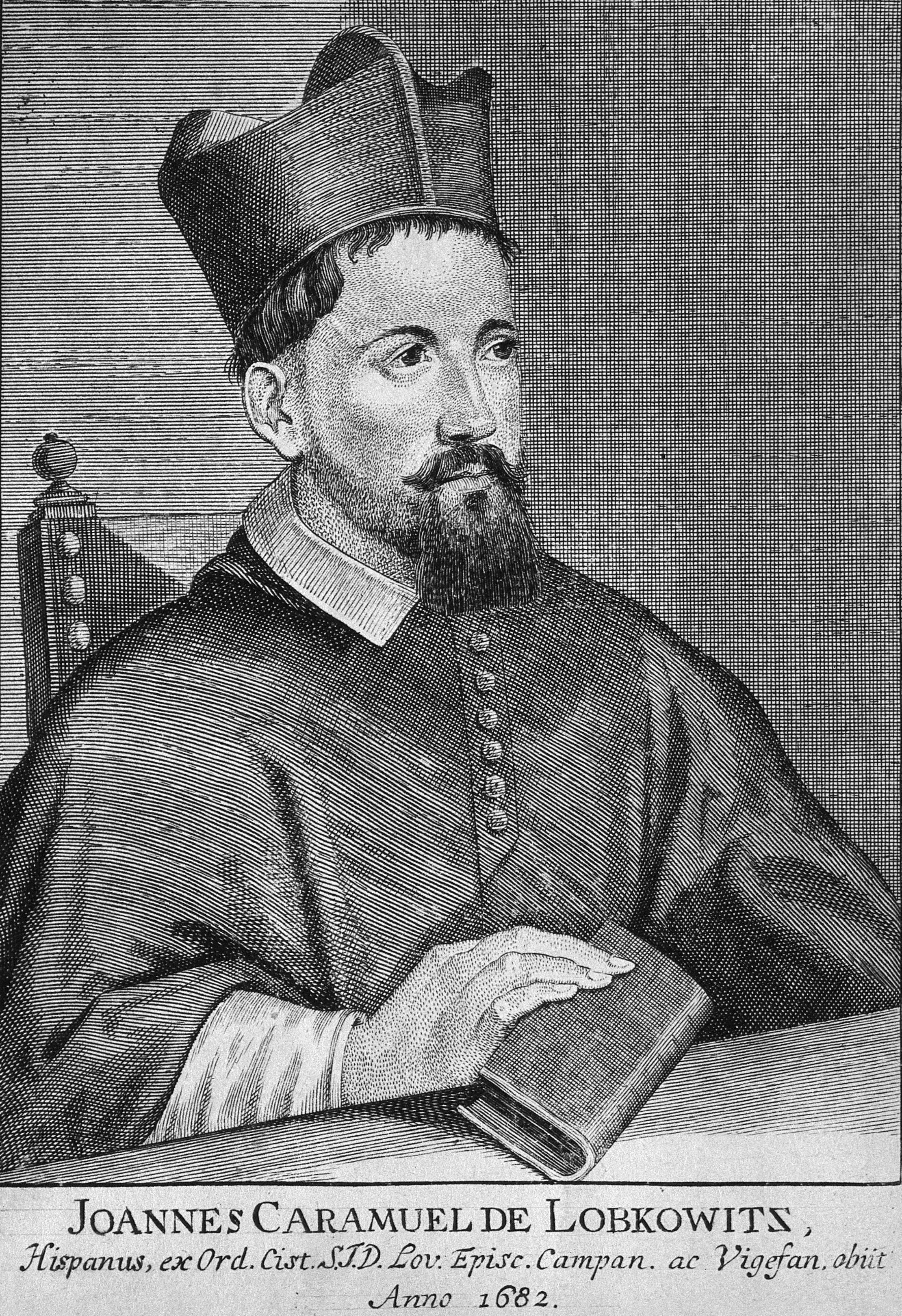 The Spanish philosopher and scholar Juan Caramuel y Lobkowitz (1606–1682).